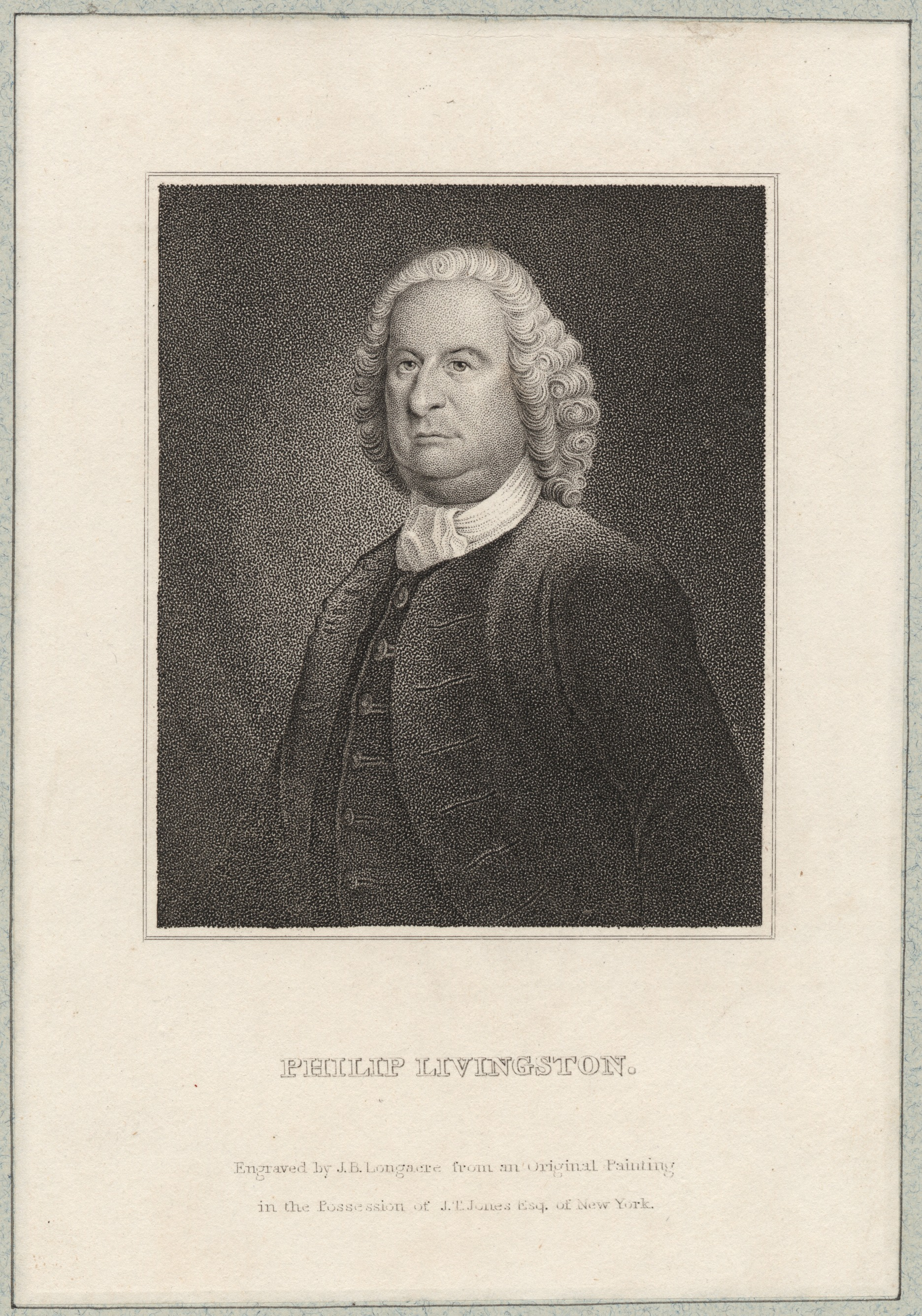 Title from Calendar of Emmet Collection. Citation/reference : EM192